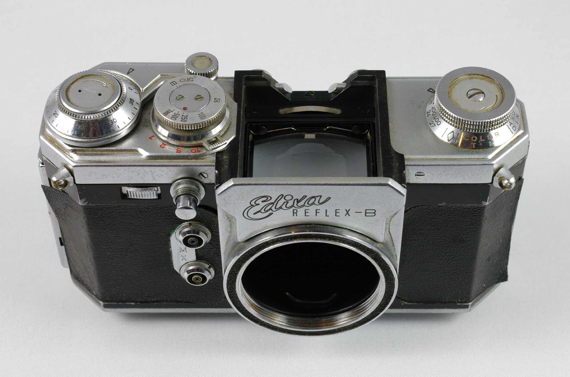 The SLR camera Edixa Reflex-B from Wirgin; body was bought ~ in 1957/58 in Germany. This model is constructed with a removable and exchangeable viewfinder unit. In this case, it is removed – so you can see the focusing screen.